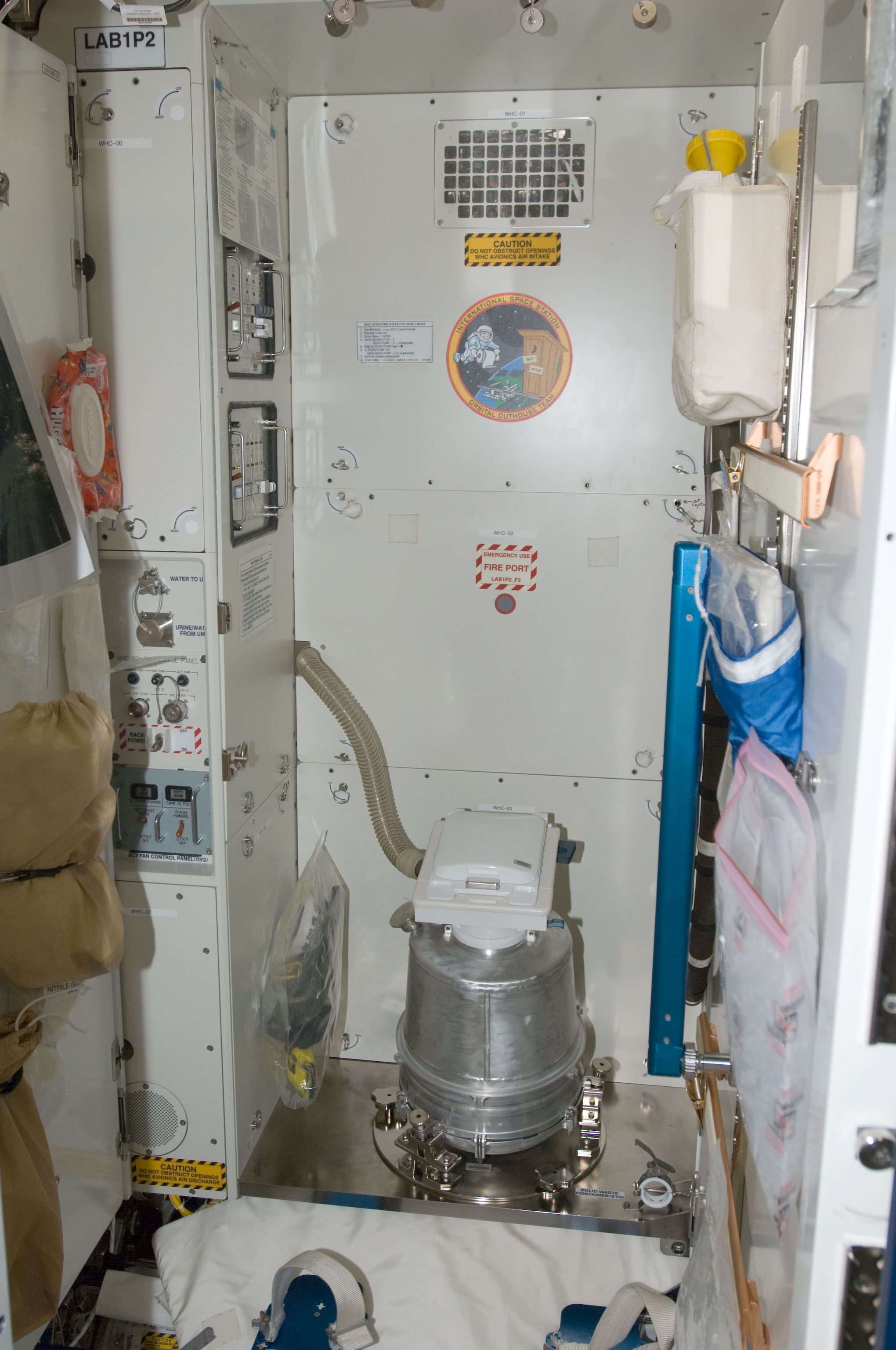 The waste and hygiene compartment in the Destiny Laboratory Module of the International Space Station, photographed by an Expedition 19 crew member.